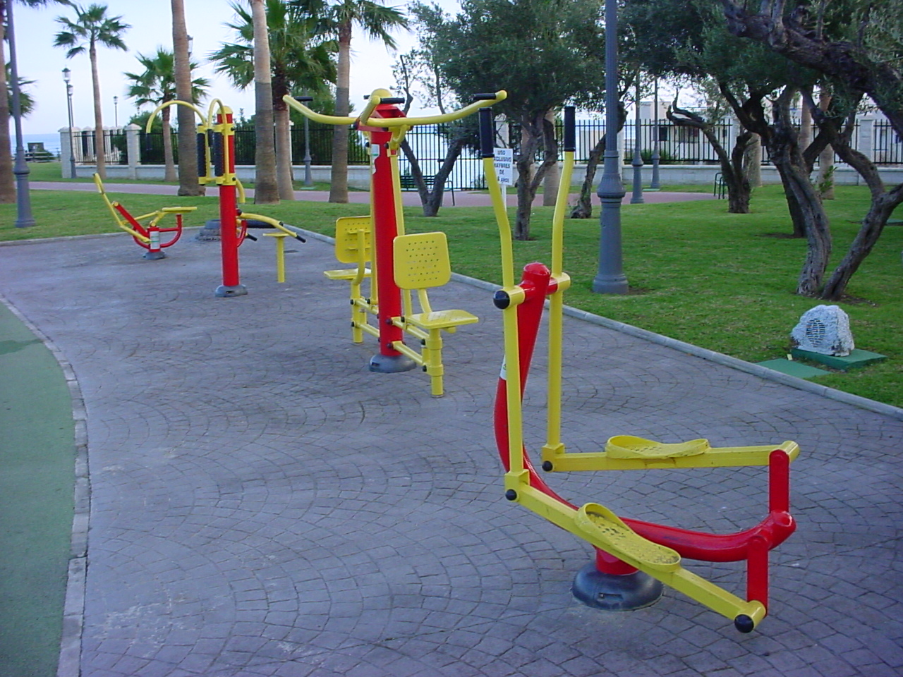 Outdoor Gym in Parque de Bateria, Torremolinos, South Spain